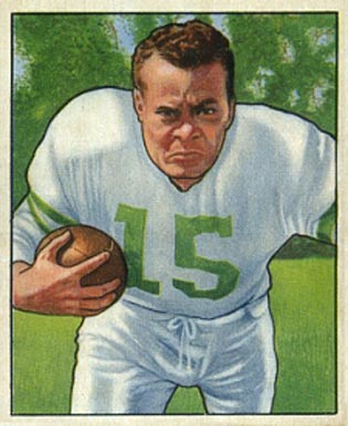 National Football League halfback Steve Van Buren depicted on a 1950 Bowman Gum football trading card with the Philadelphia Eagles